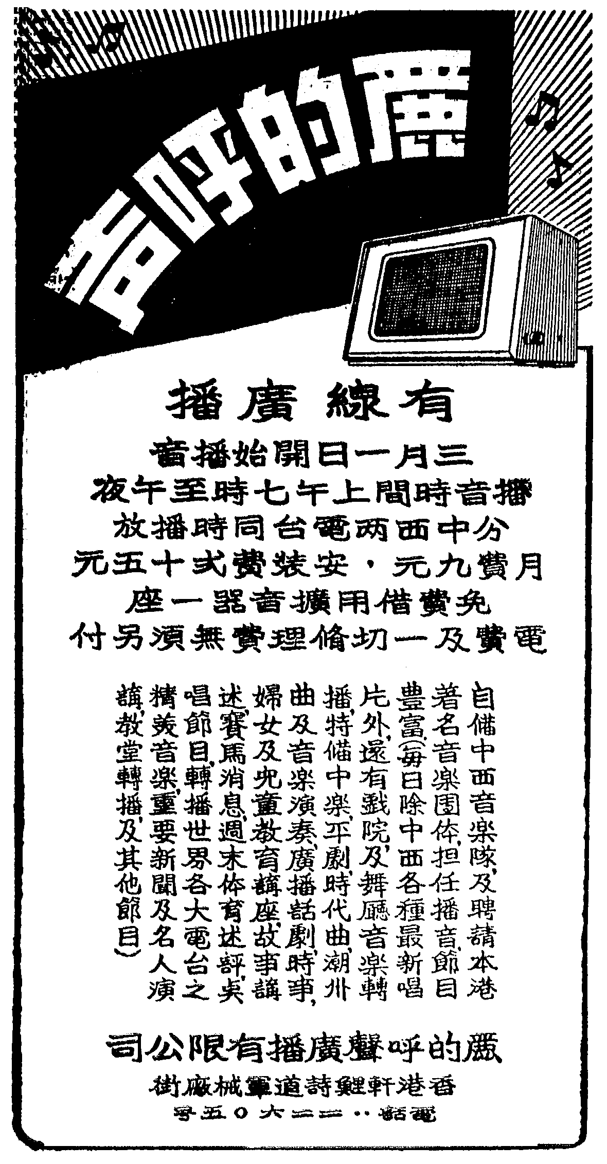 Public Advertisement: "Redifussion Hong Kong" 中文（香港）: 香港麗的呼聲的廣告